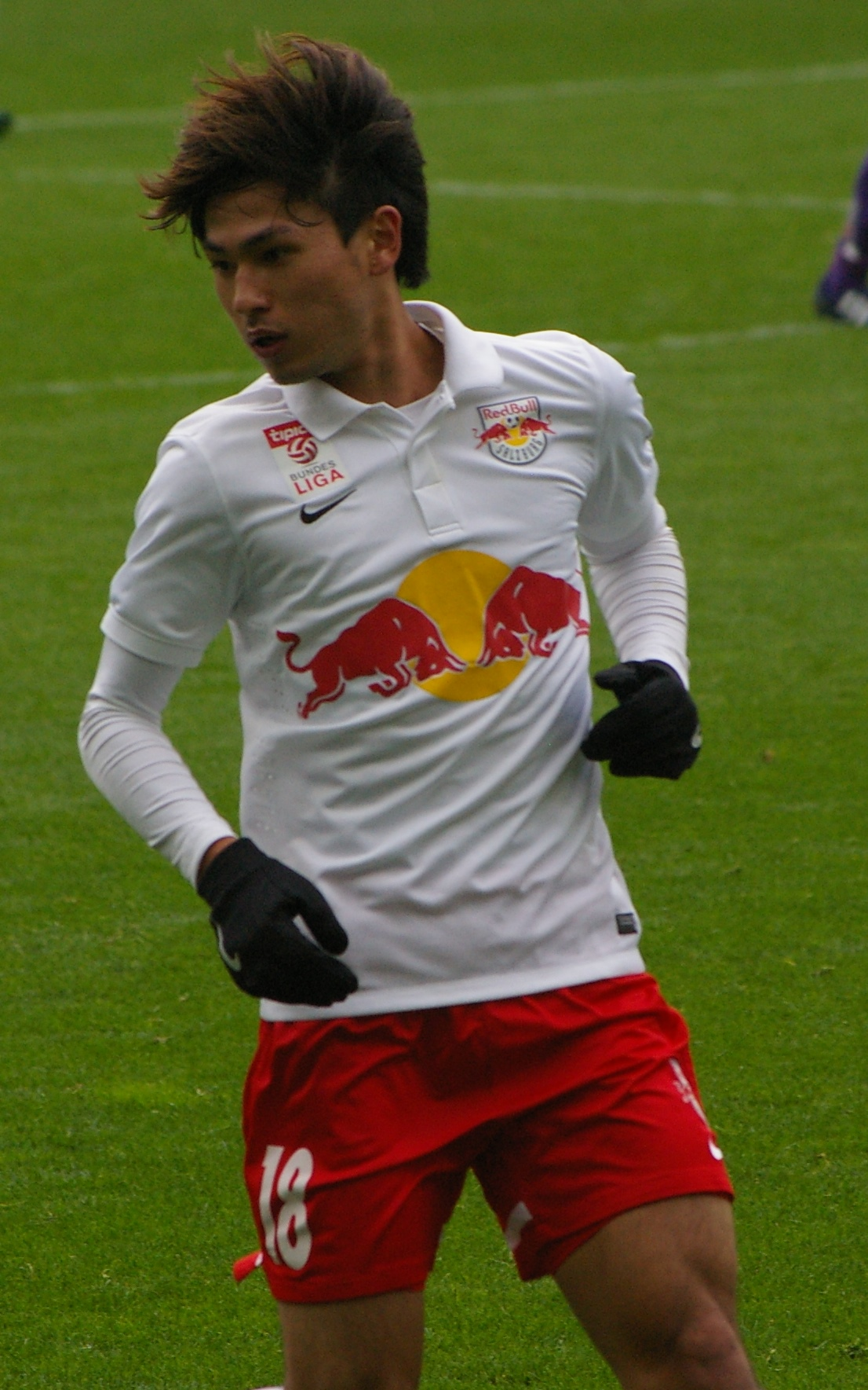 Austrian Bundesliga league match